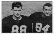 Ted Kennedy football